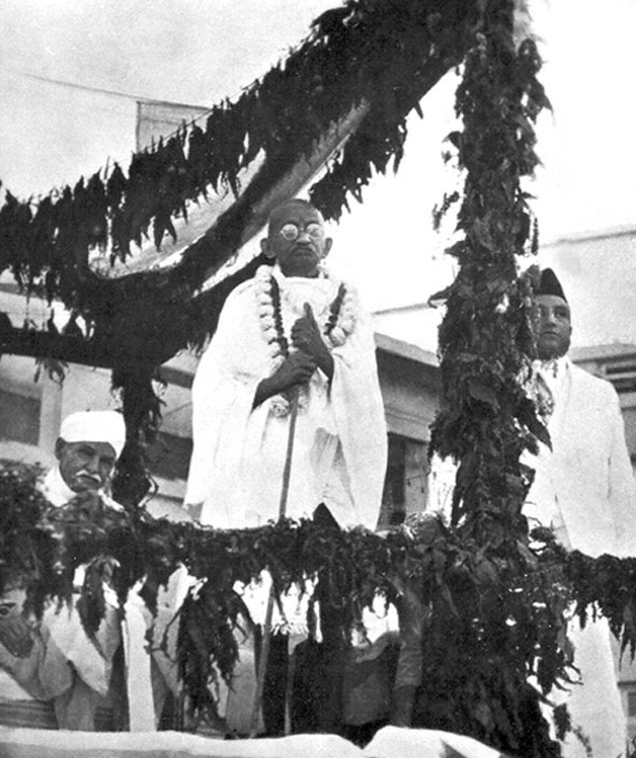 Mahatma Gandhi performing the opening ceremony of Kamala Nehru Hospital in Allahabad in 1941. Pandit Madan Mohan Malavaya is on the left and Dr. Jivaraj Mehta is seen standing on the right.